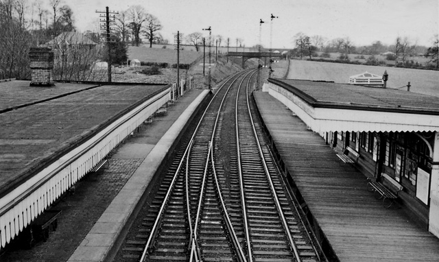 Berkswell & Balsall Common Station. View westwards, towards Birmingham; Rugby - Birmingham - Wolverhampton - Stafford main line, western junction of Leamington Loop. ('Balsall Common' suffix dropped in recent years).